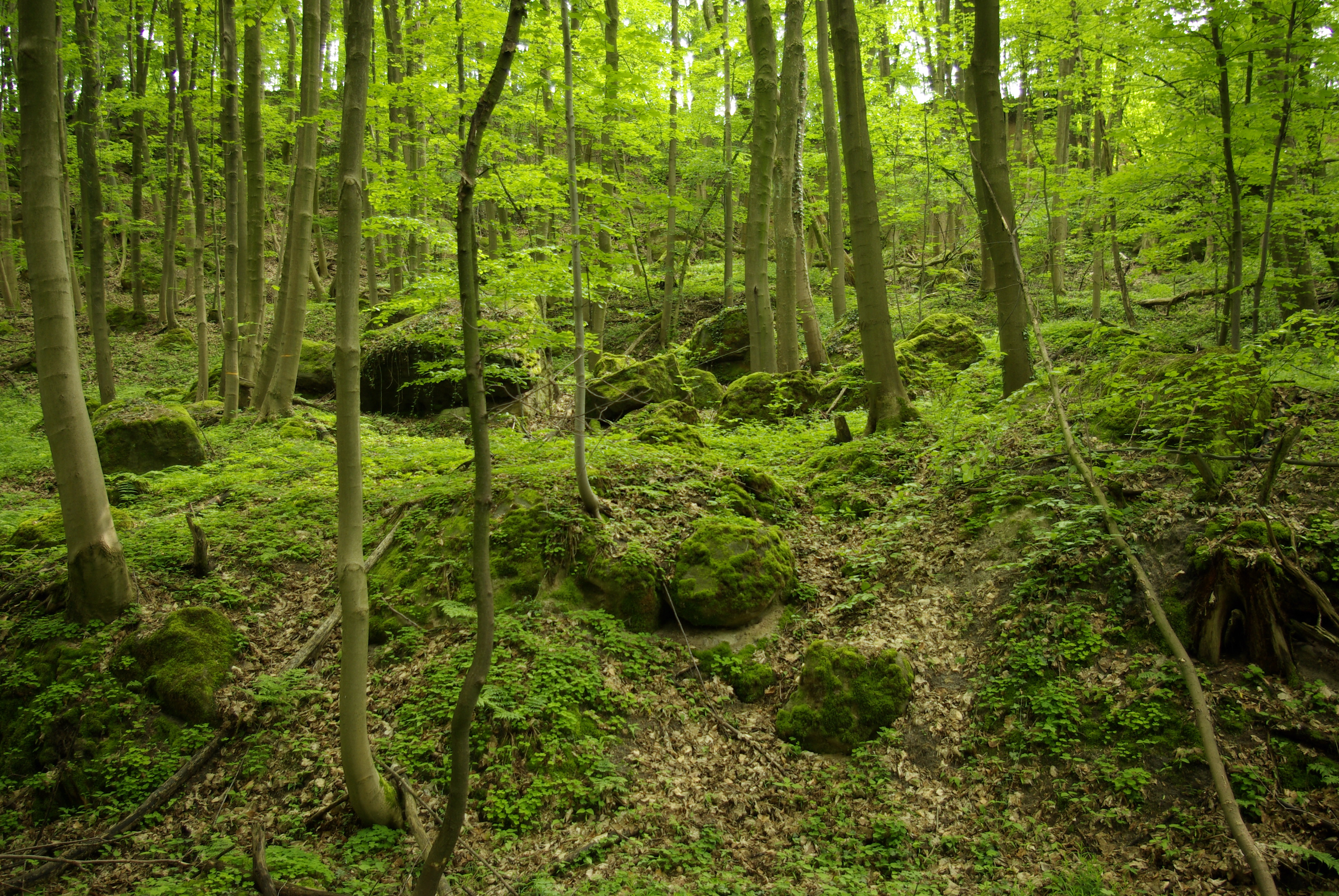 Nature reserve Wildnis am Rathsberg